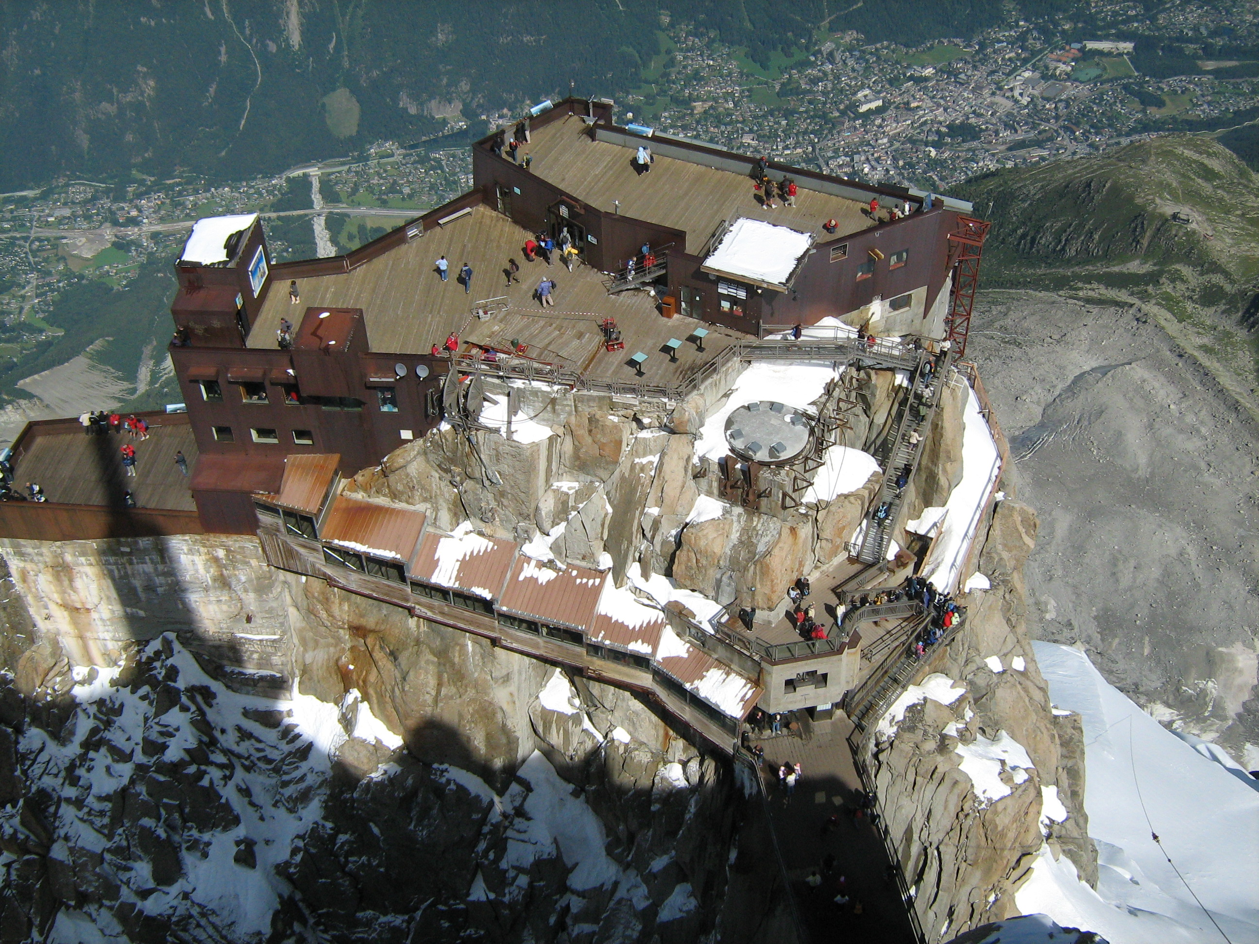 The top station of the Aiguille du Midi Cableway. In the background you see Chamonix. August 2007.